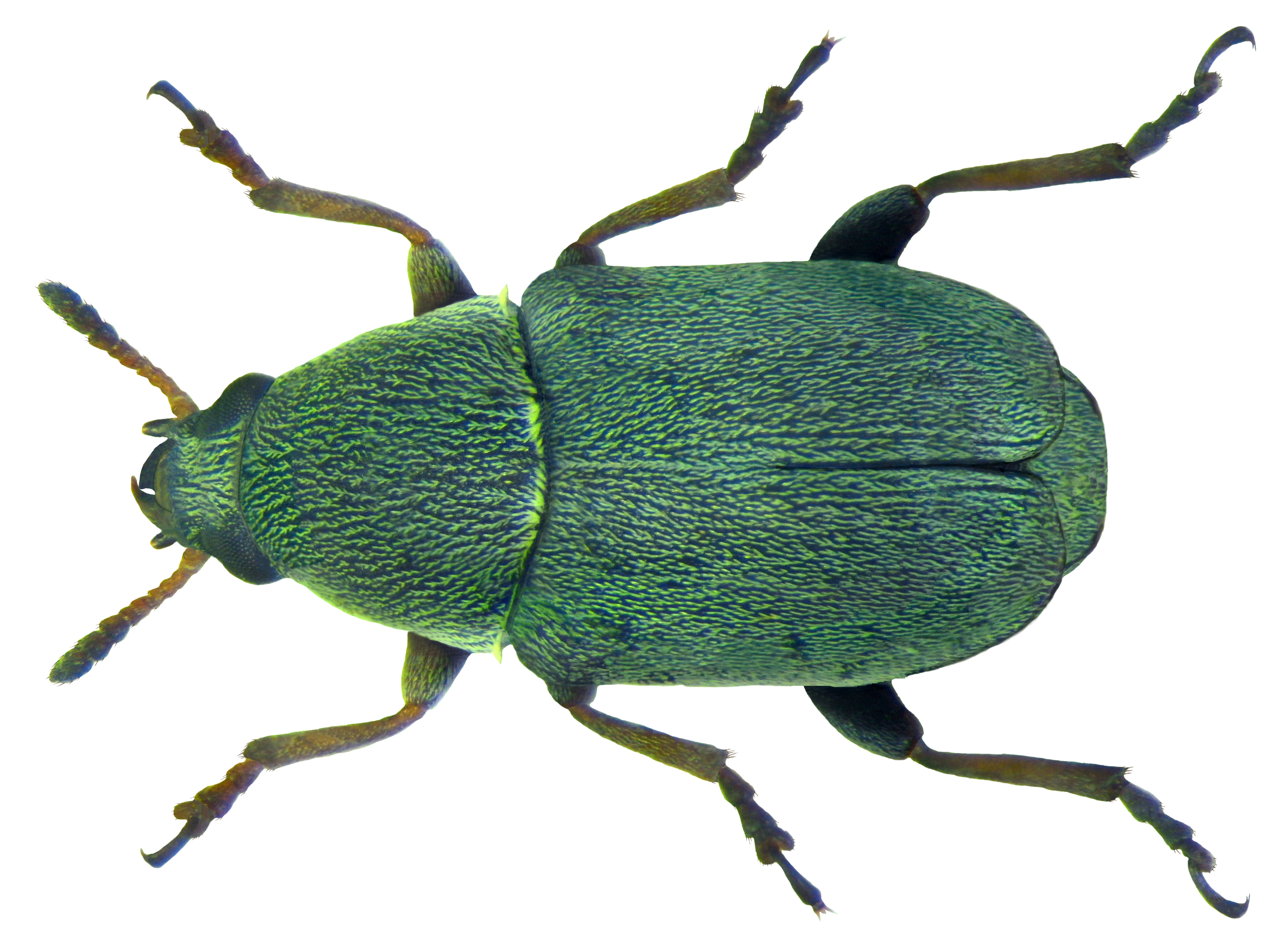 Family: Urodonidae (Anthribidae) Size: 2,5-2,8 mm Origin: Europe Ecology: lives on Reseda lutea Location: Germany, Baden-Württemberg, Weil am Rhein leg. det. R.Greger, 10.VI.1974 Photo: U.Schmidt, 2012